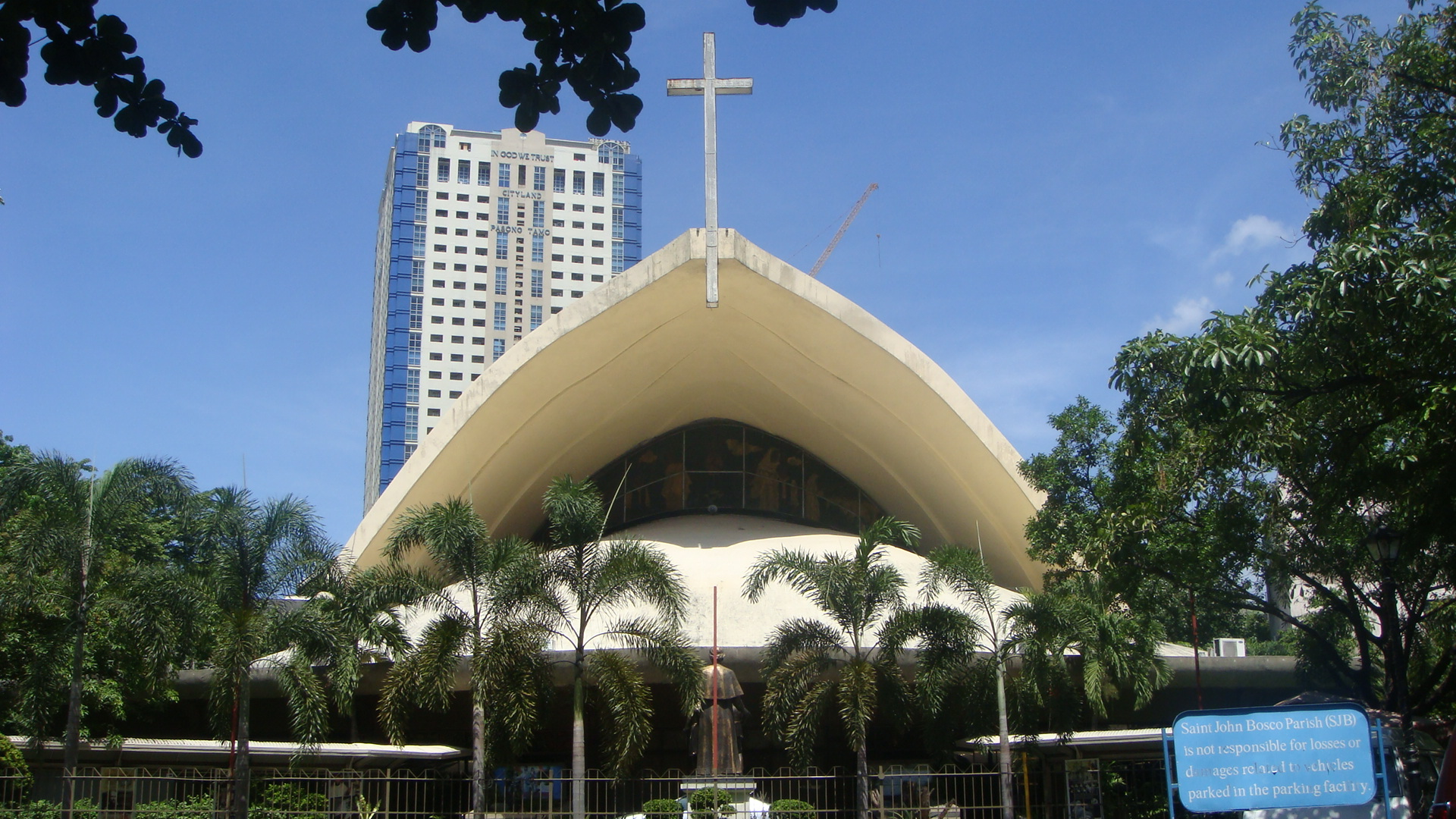 St. John Bosco Parish Church, Makati City[1]